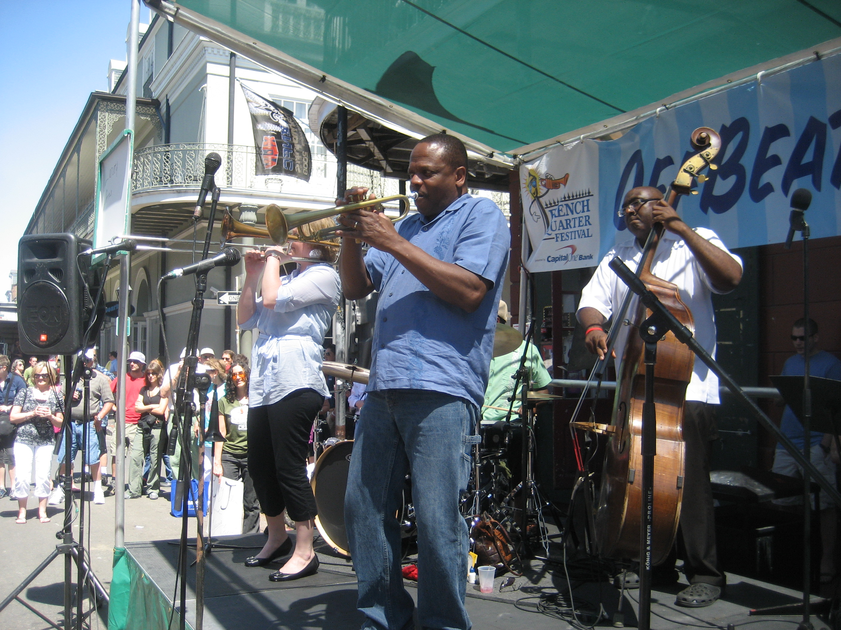 French Quarter Festival, New Orleans, Louisiana. Leroy Jones.